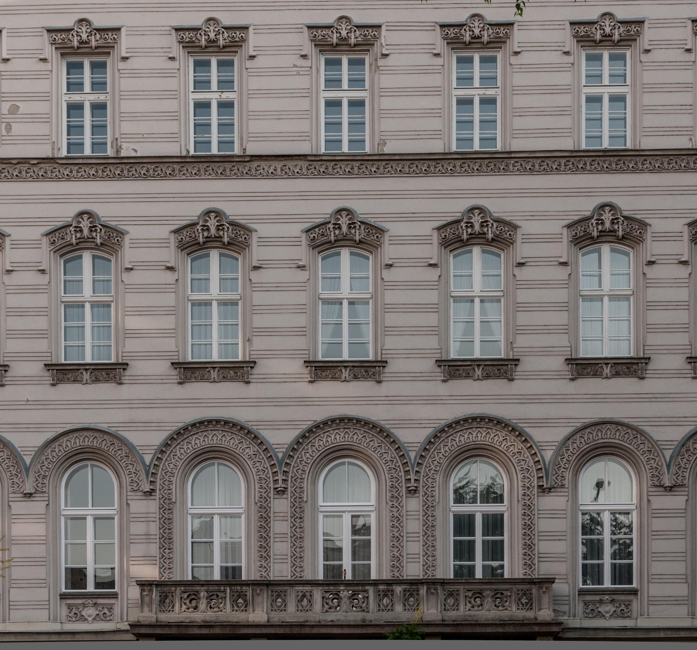 Budapest city